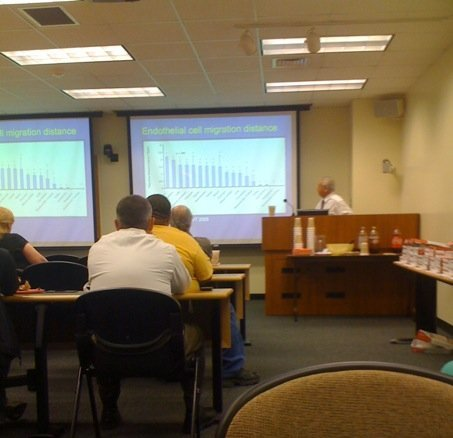 A noon seminar for residents at UTHSCSA Radiology program.